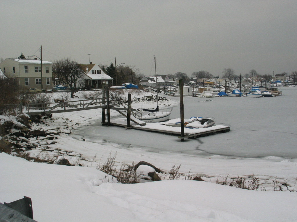 Plumb Beach Channel, in the Gerritsen Bay, photographed in Winter 2005